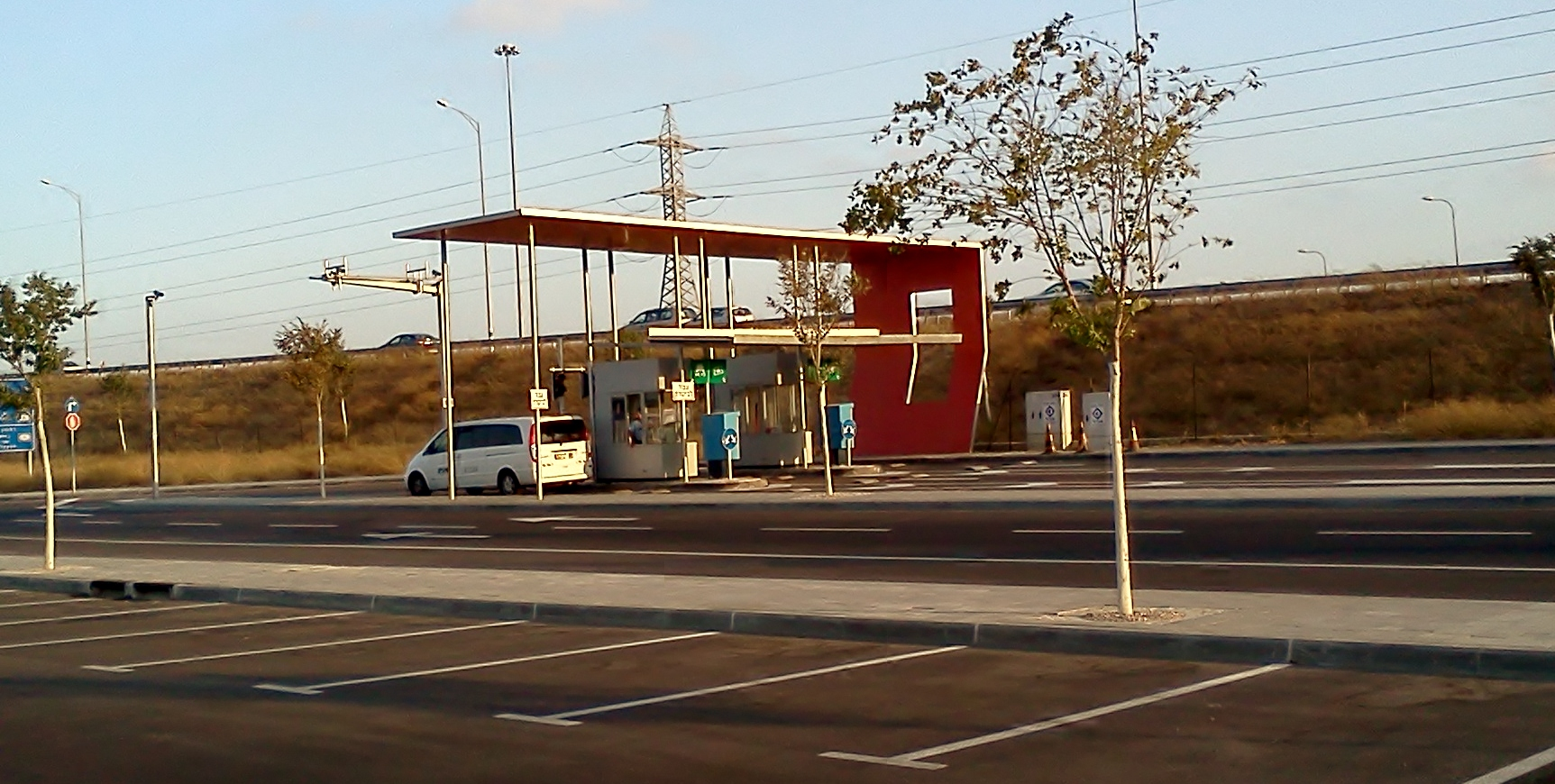 Checkpoint for free pass at fast lane on highway 1, Israel